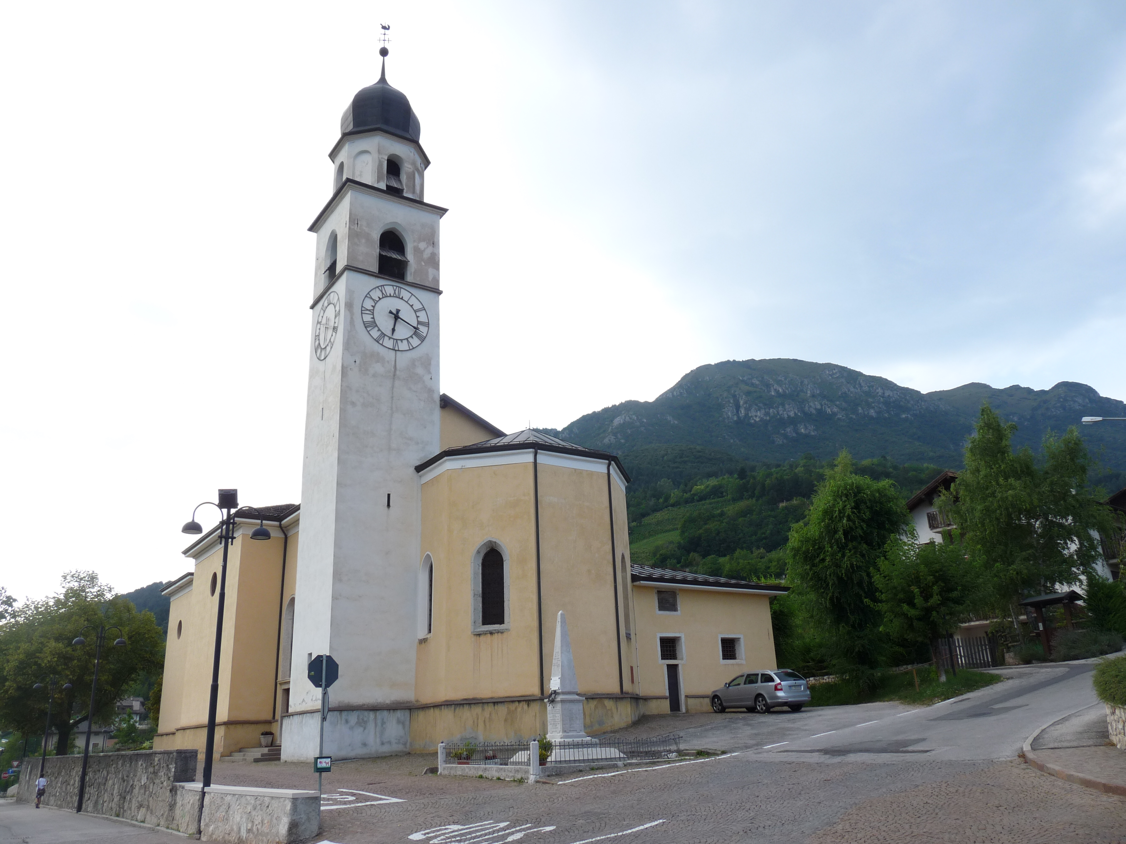 Vigolo Vattaro (province of Trento, Italy): Saint George church (rear)